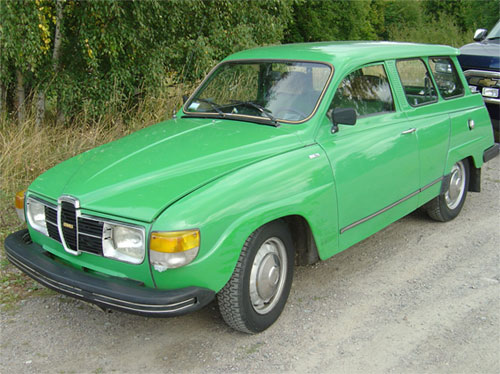 Saab 95, station wagon, 1978 version. The thick bumpers, big turn indicator lights and 99 style seats make it a 1978 (last production year), in jade green.